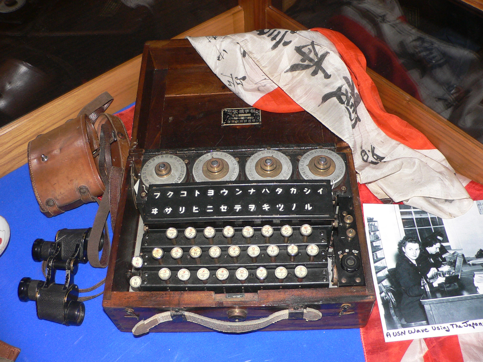 Pictures taken by myself at the US National Cryptologic Museum.